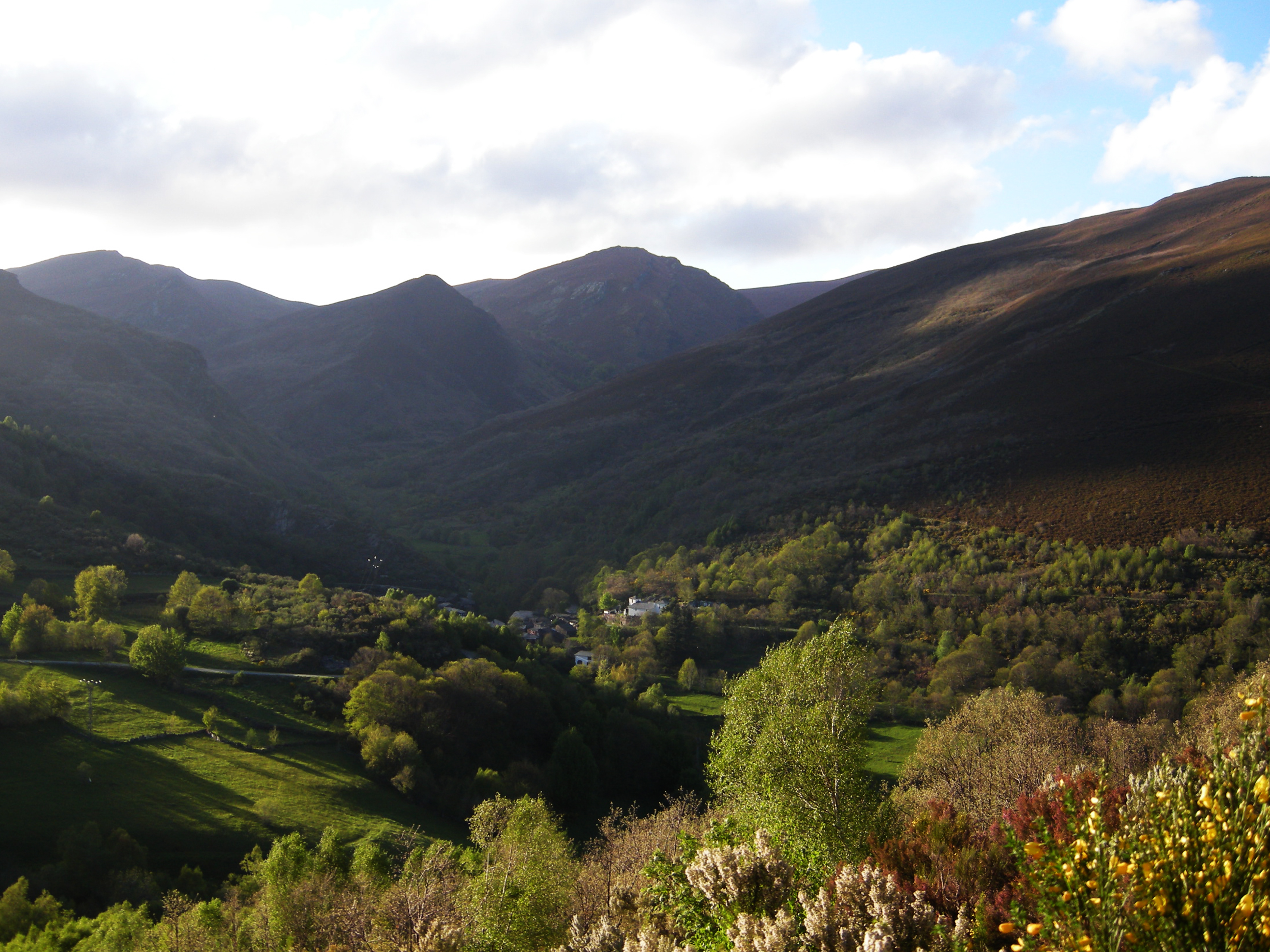 A Seara, lugar da parroquia da Seara, no concello de Quiroga.